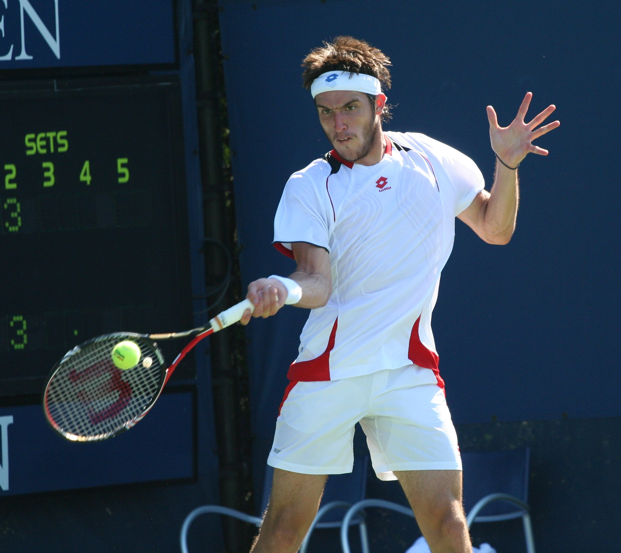 U.S. Open Monday, Aug. 30, 2010